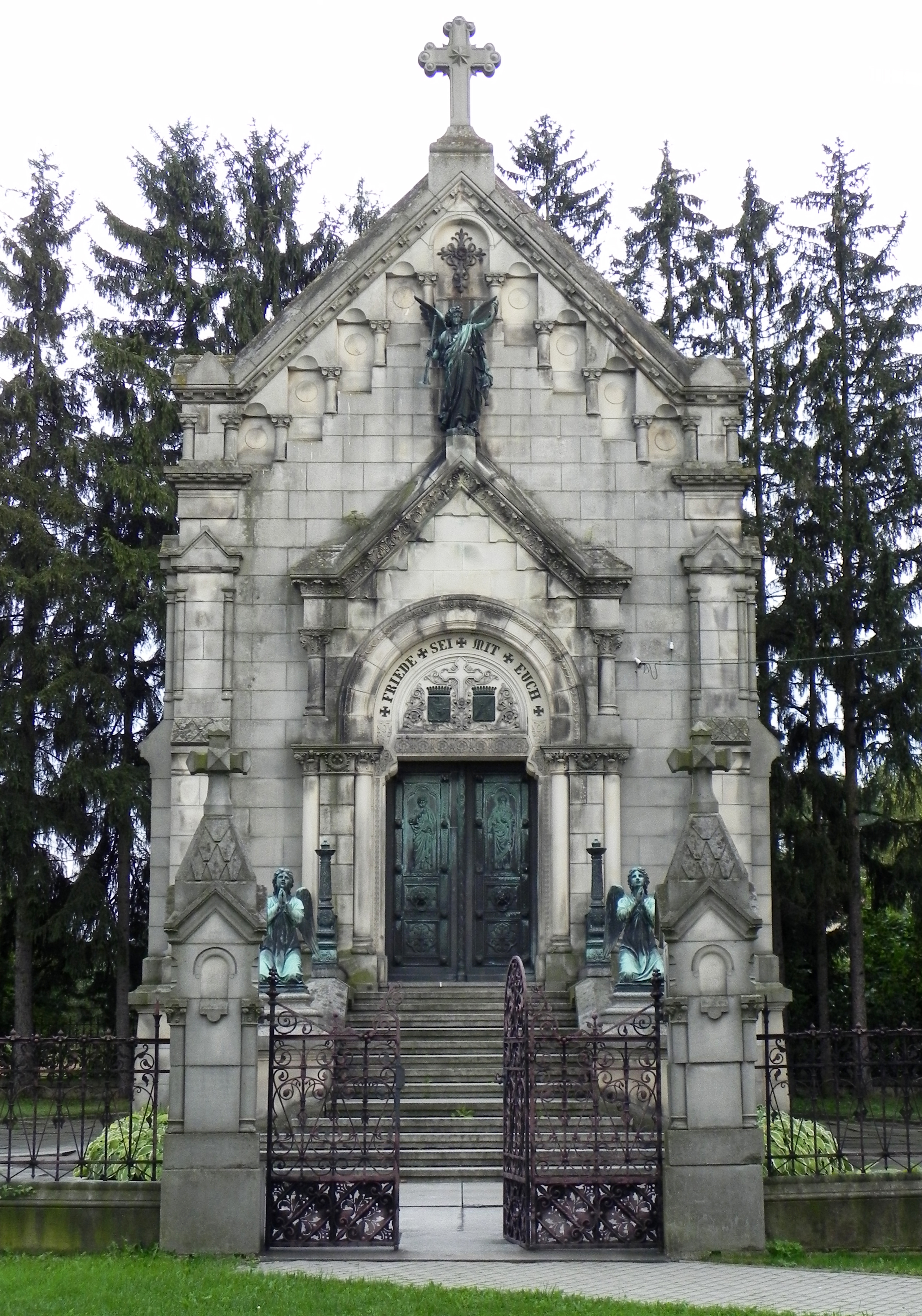 Mausoleum of von Magnis family in Ołdrzychowice Kłodzkie